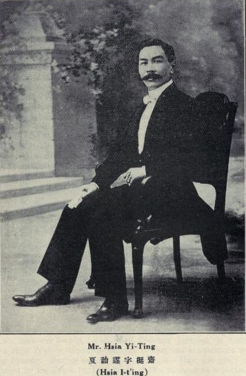 Xia Yiting, Tingzhai (born 1878)